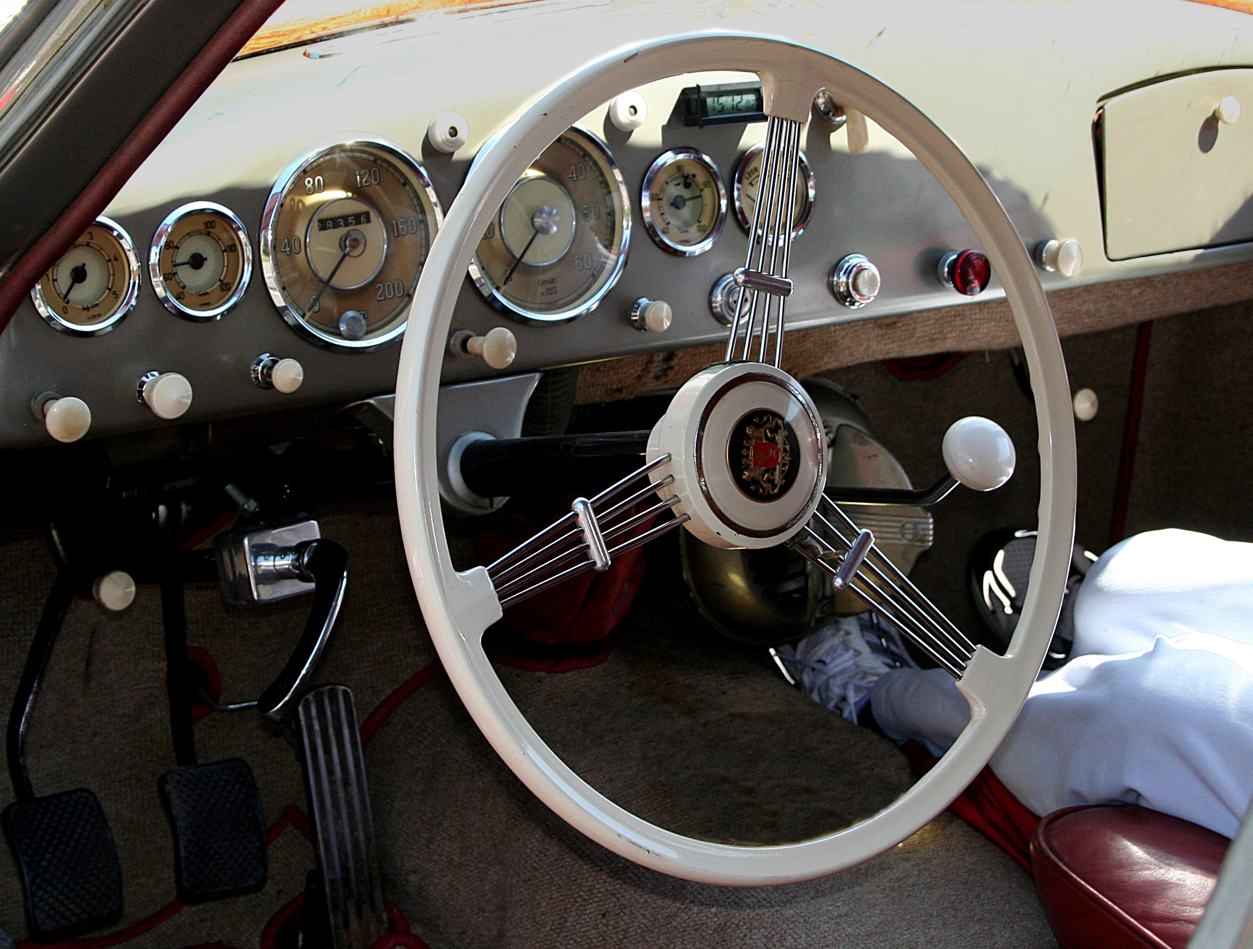 One of two prototypes of the Borgward Hansa 1500 Sportcoupé, built in 1954 and exhibited at the Geneva Motor Show. This car never entered serial production. The photo was taken at 2000 km durch Deutschland 2006.